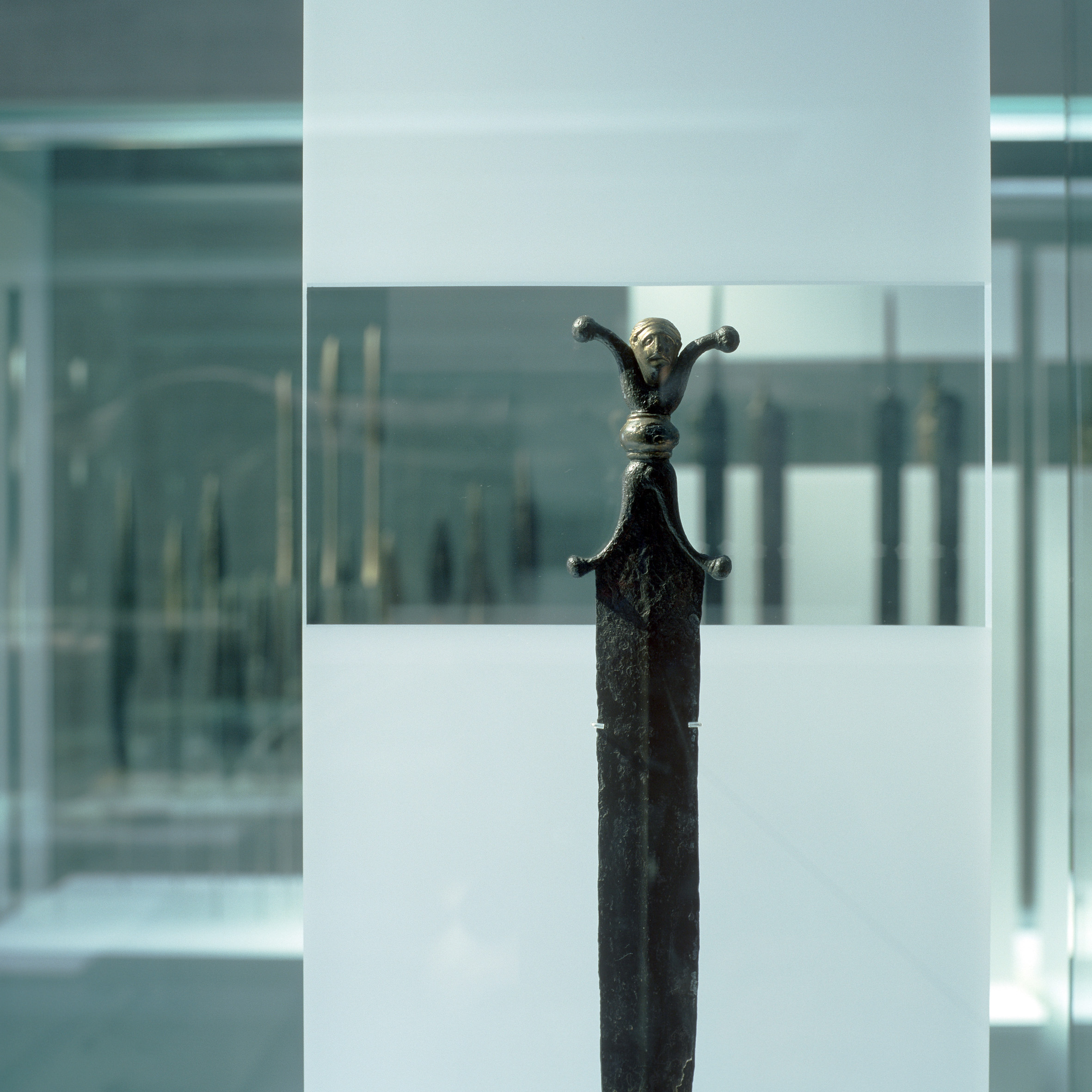 Facsimile of an anthropomorphic bronze dagger. Middle La Tène (300-100B. C.), Pont de Thielle. N° inv. BE-GAMP-9. Picture by Y. André / Laténium.